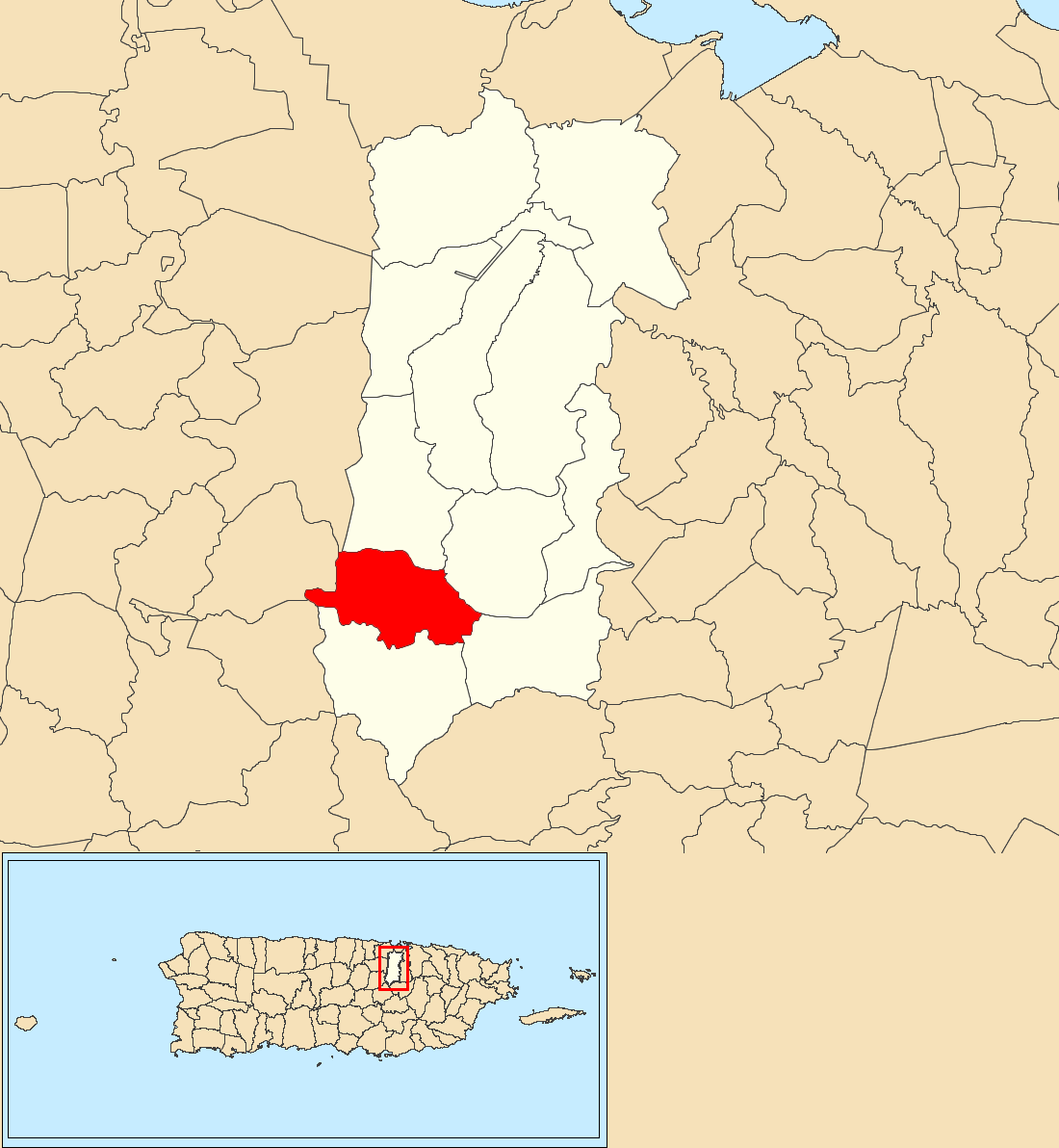 Dajaos, Bayamón, Puerto Rico locator map